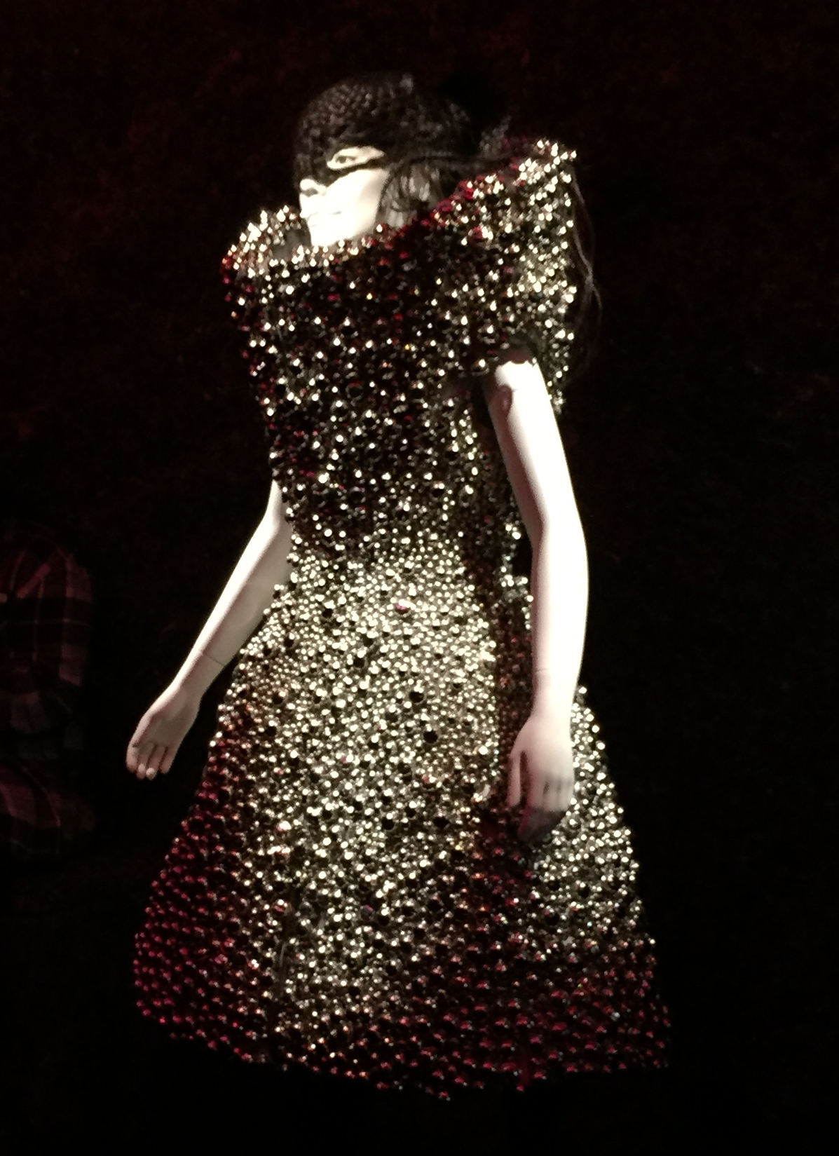 Bjork at MOMA